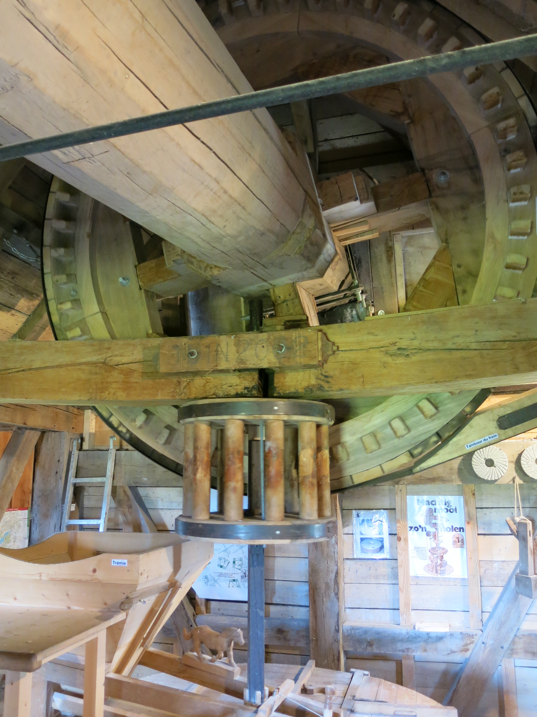 The wheel and the main axis moved by the wings of the windmill of Dosches near Troyes (Aube, France).